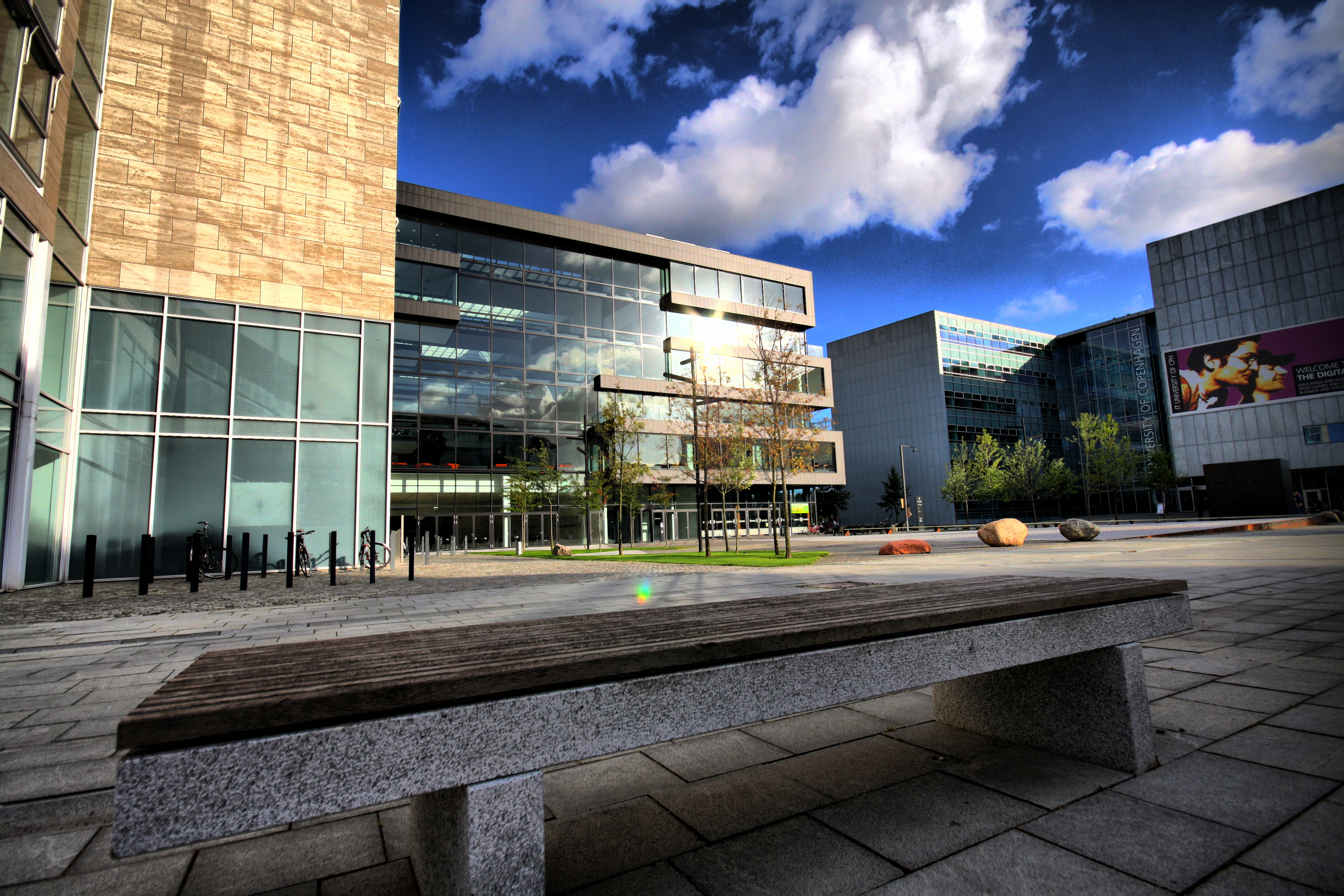 The square Mikado Plads in front of Mikado House (designed by Arkitema and built 2008-20) and the IT University of Copenhagen